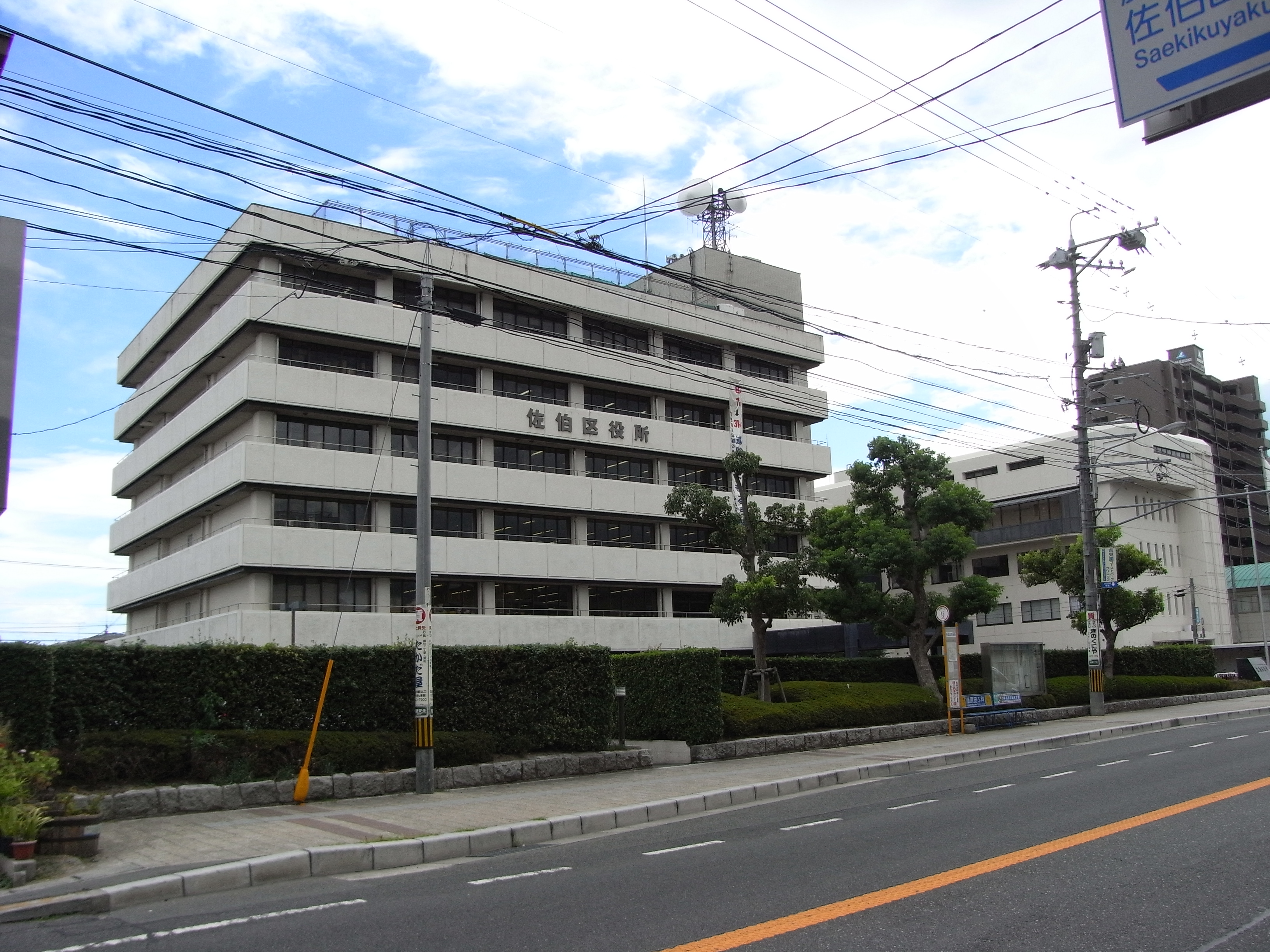 Saeki Ward Office in Hiroshima City, Hiroshima Prefecture, Japan